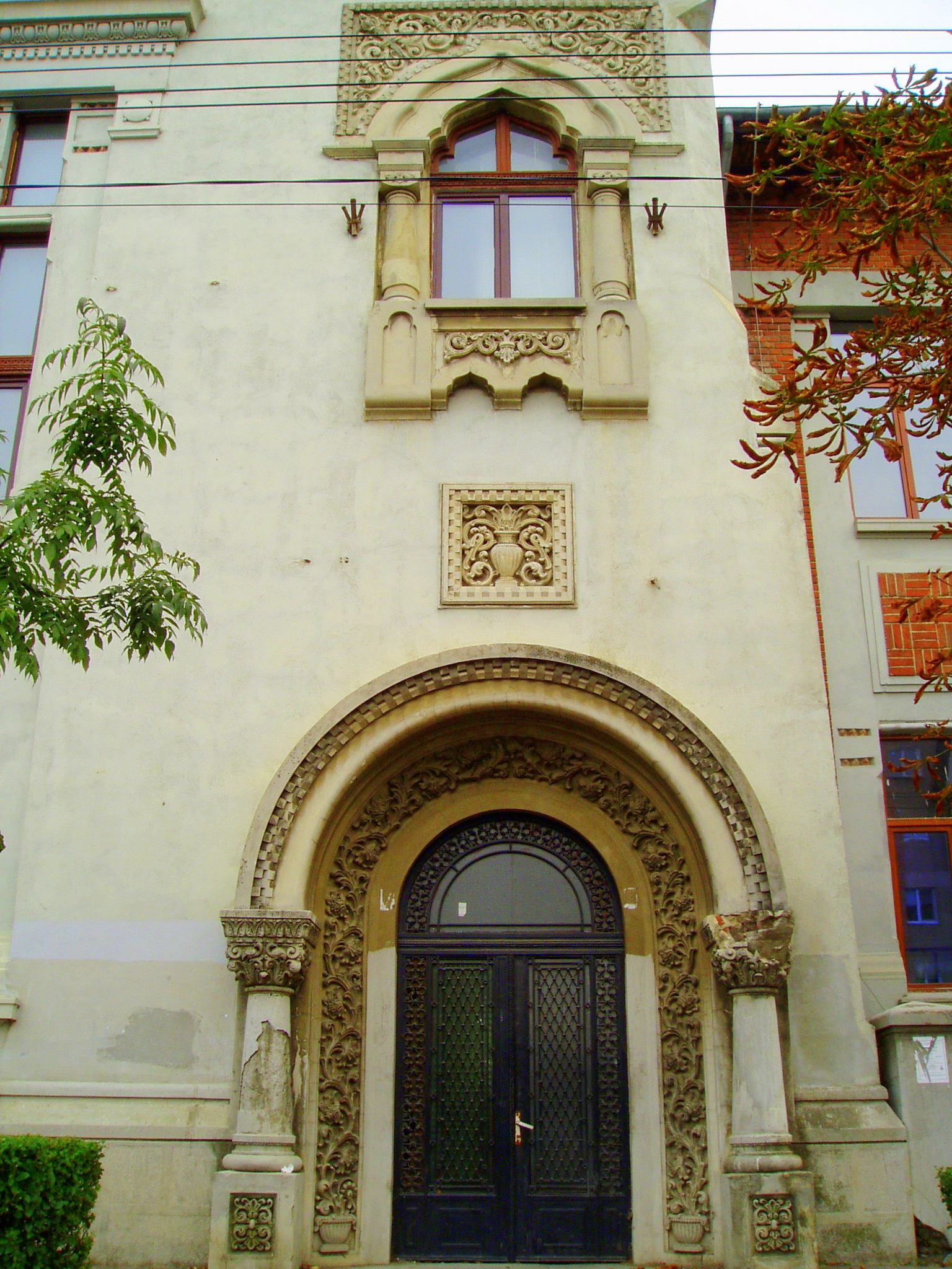 Boys High School, Câmpina, Romania. Architect: Toma T. Socolescu. This building is located at Calea Doftanei, nr 3, in Câmpina, Judeţul Prahova, Romania. It is now called the Nicolae Grigorescu College. We are the only heirs and descendants of Toma T. Socolescu (died in 1960 in Bucharest) and therefore owner of all his intellectual rights.